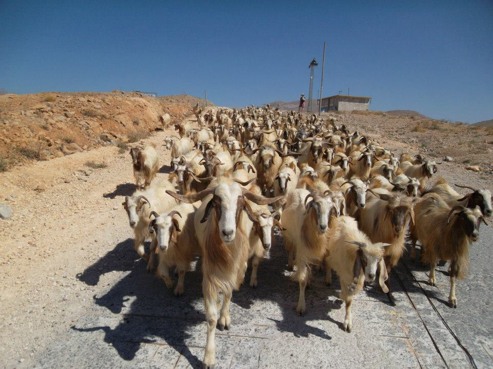 On Mount Hermon